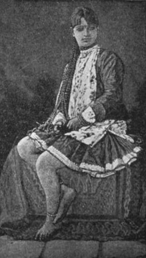 Persian Christian Girl, in home attire.